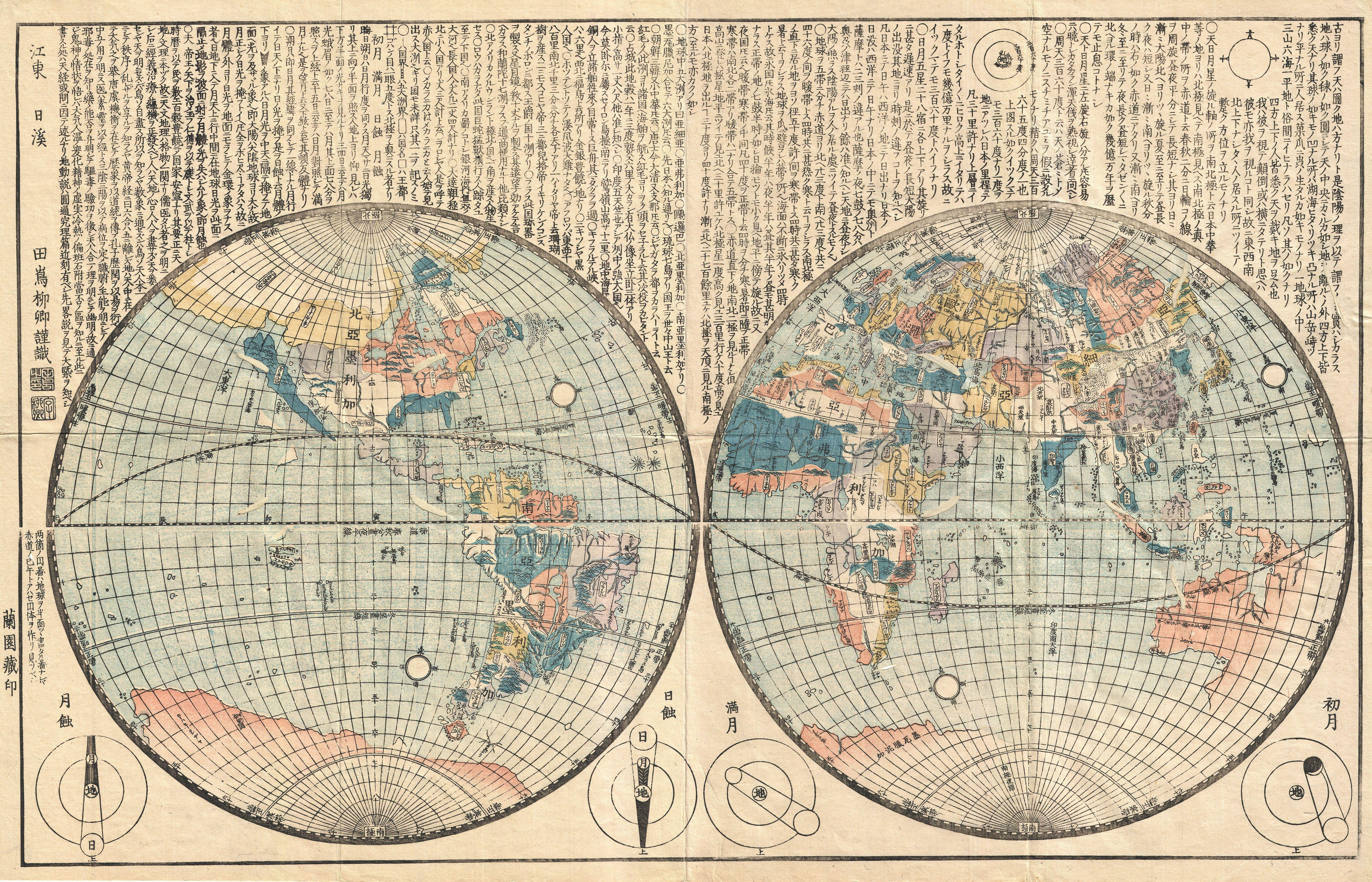 An extraordinary Japanese woodblock map of the world dating to 1840 by Ryukei Tajima. A brief overview of this remarkable map reveals just how isolated Japan really was prior to the arrival of Commodore Perry in 1850. Though printed in 1840, the cartography exhibited suggests an early 17th century European perspective of the world. California is represented as an island, the mythical Terre Australis stretches across the southern latitudes, Australia is connected to both New Guinea and Terre Australis, and mysterious suggestive landmasses fill the Pacific. The text surrounding the map itself, as well as several smaller diagrams, describe a heliocentric theory of climate and show eclipses of the Sun and Moon from this perspective. Visually the whole is beautifully if vaguely drafted using a combination of European and Edo period Japanese mapping techniques. The map is presented in a European style double hemisphere projection and the cartography is wholly European in conception. However, the detail work and the style of the engraving itself is entirely that of Edo Japan. This is a traditional Japanese woodblock map engraving on rice paper with mountains are shown in low profile, rivers are represented as open waterways, and regions identified by title cartouches. A important acquisition for any serious collection of Japanese cartography.